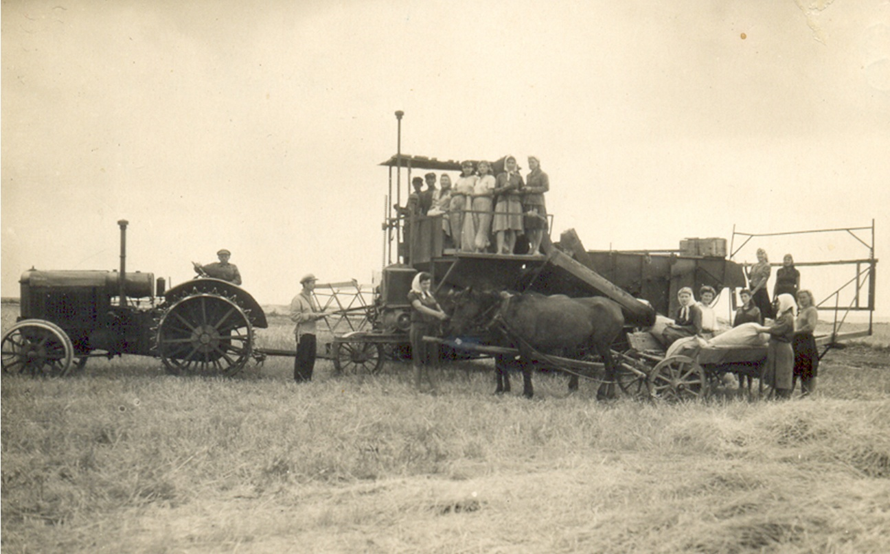 Tractor SHTZ-15/30 and Combine harvester "Kommunar", USSR, 1934